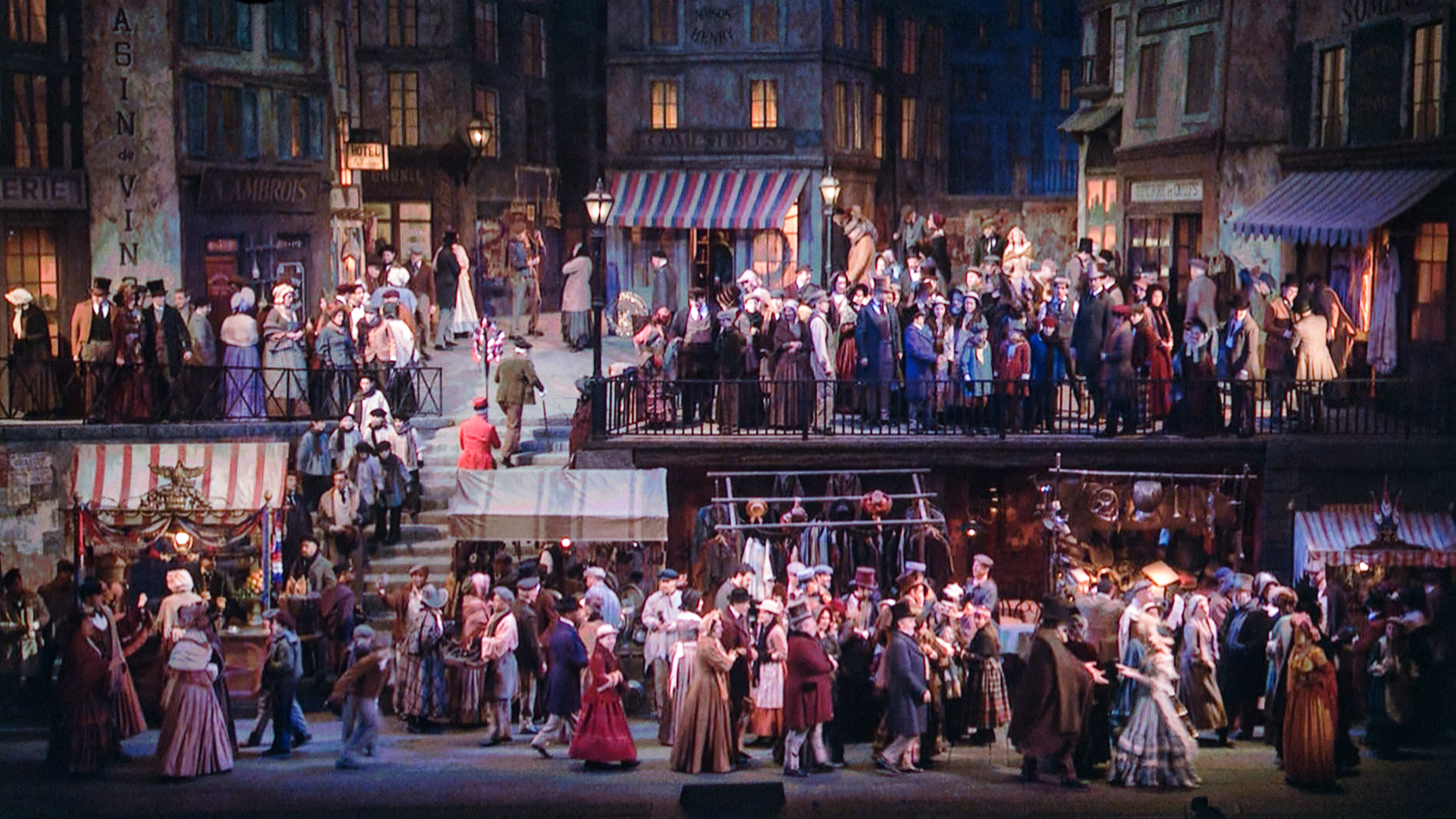 La Bohème from the Metropolitan Opera April 2014